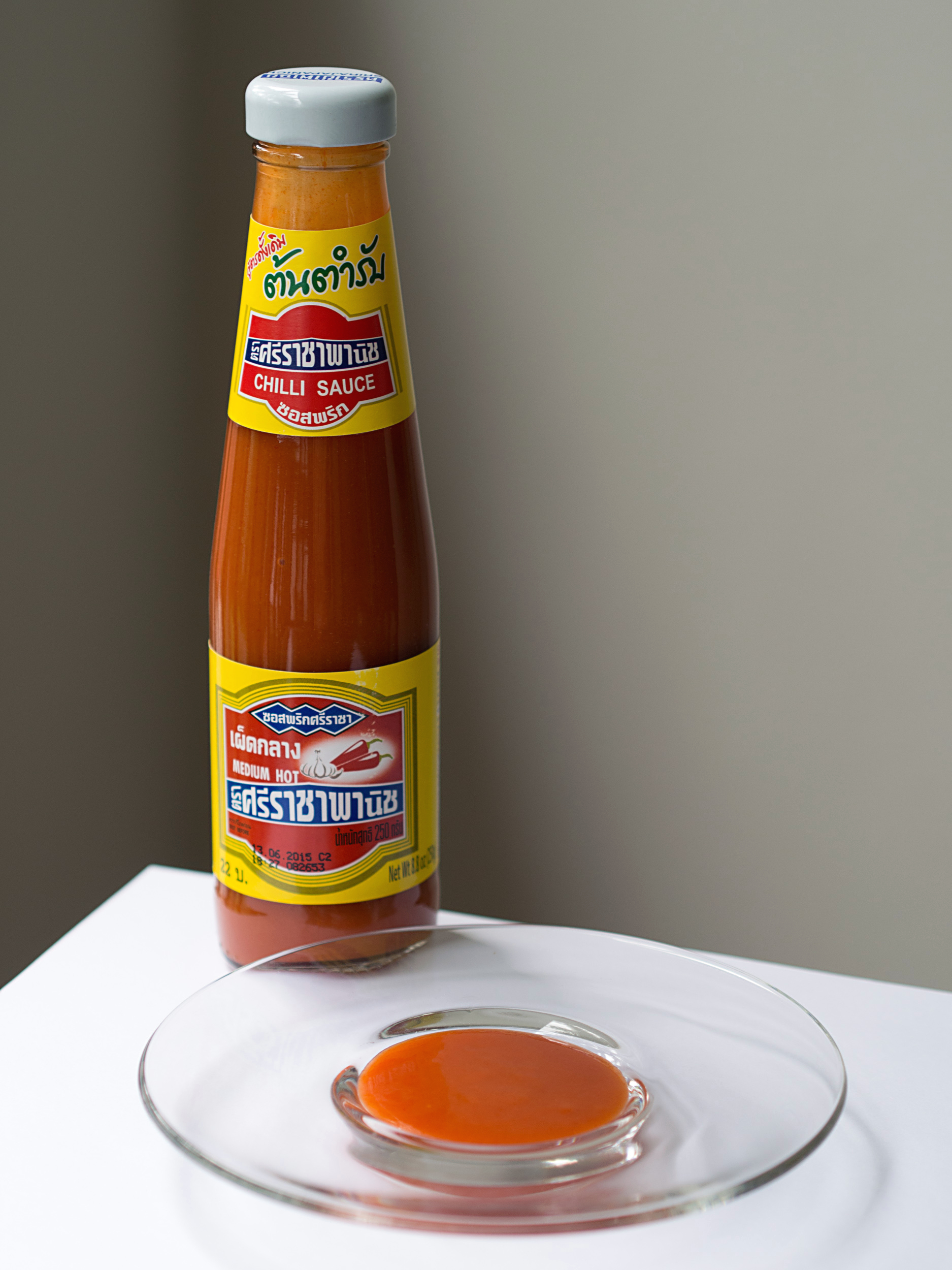 Siracha Phanit medium hot red chilli sauce, manufactured by Thai Theparos Food Products PCL